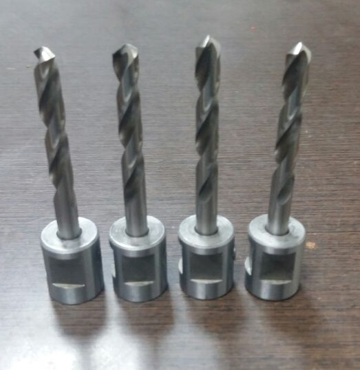 Special Rail Drill Bits with Weldon Shank manufactured by BDS Maschinen GmbH (Germany)